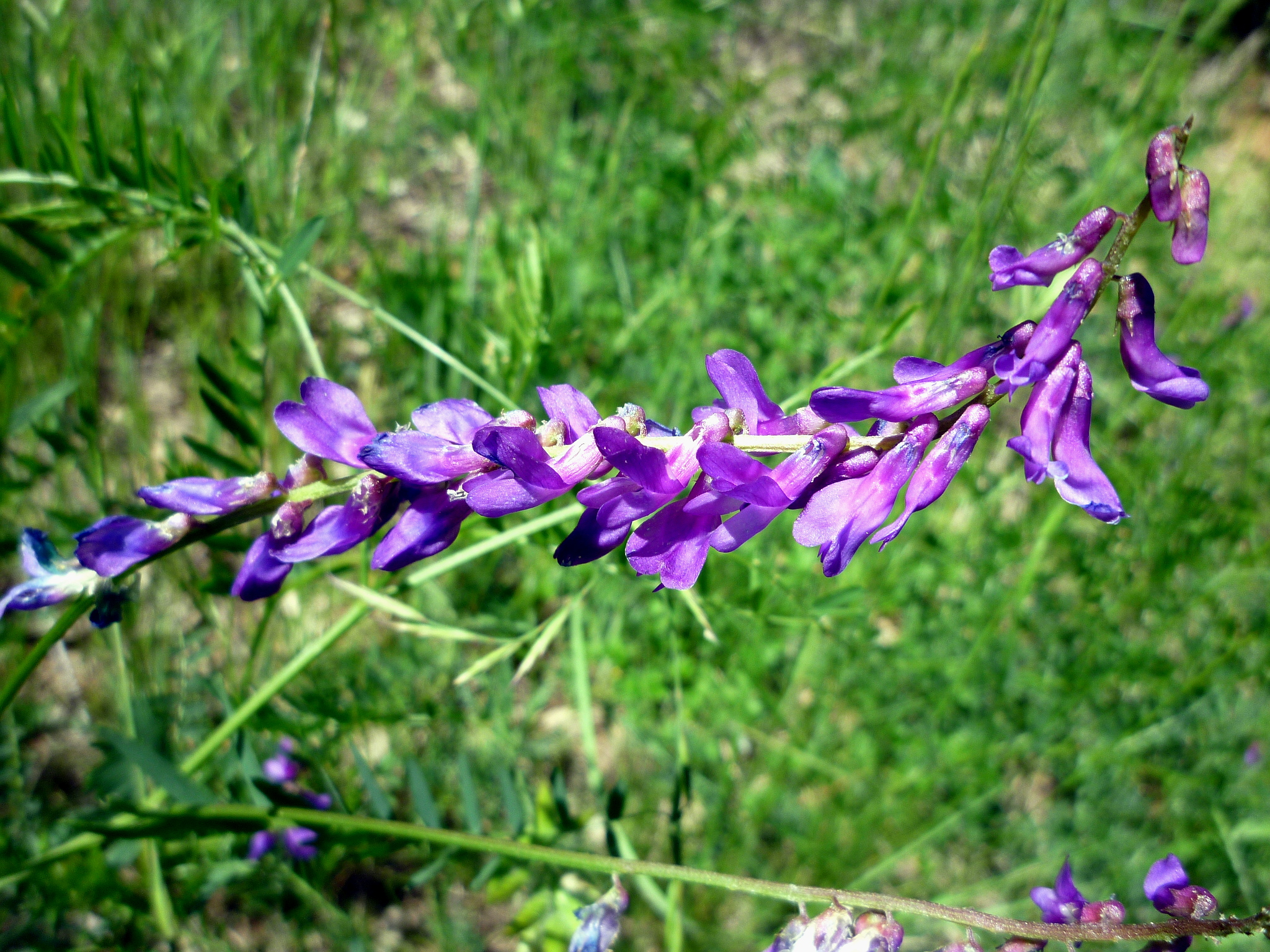 Vicia cracca. In Torà (Segarra- Catalunya). On 570 m. altitude